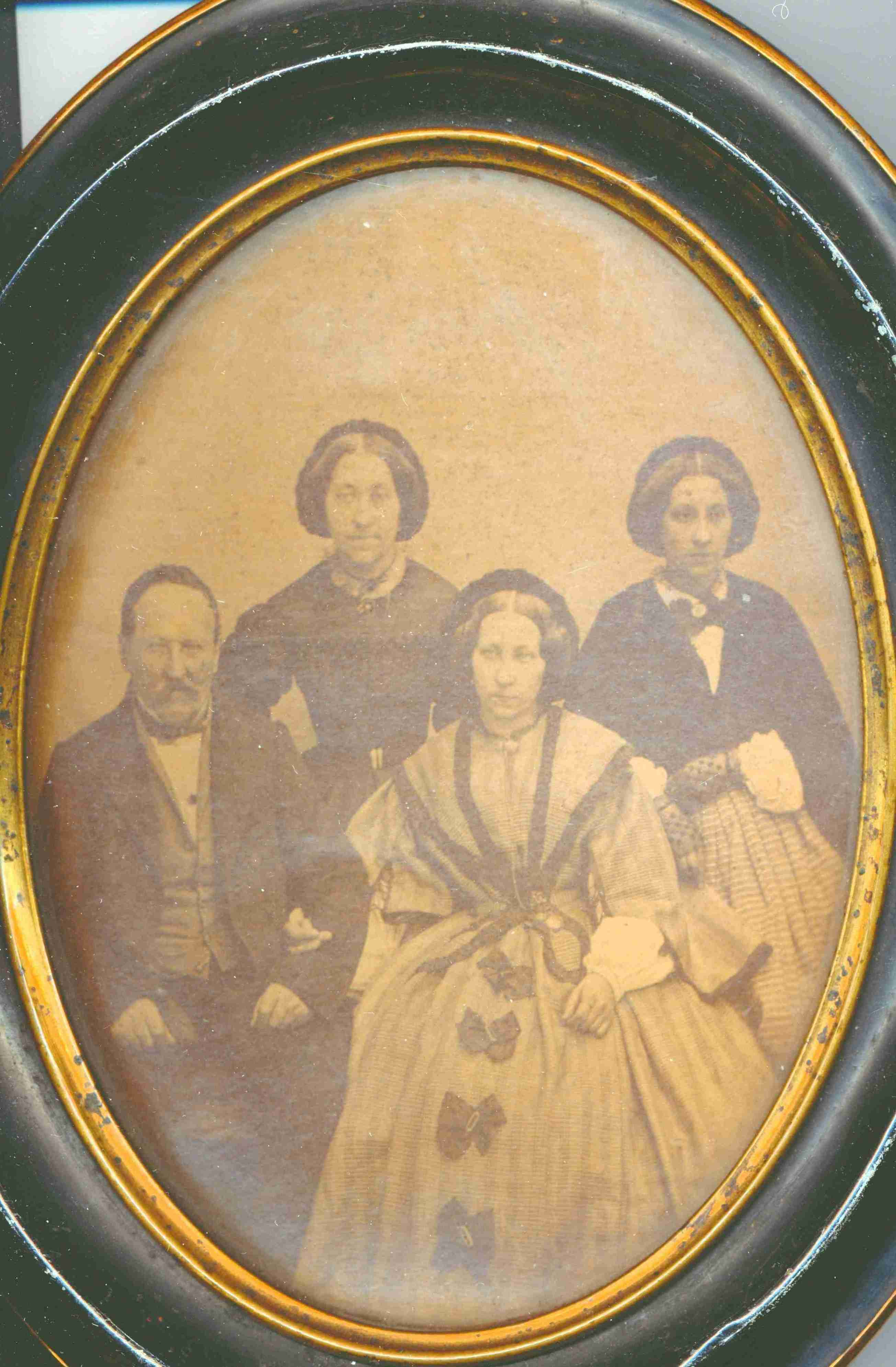 This is my own faithful retouched copy of Wincenty Danilewicz and his daughters, photograph of ca 1850. Source my own family archive.